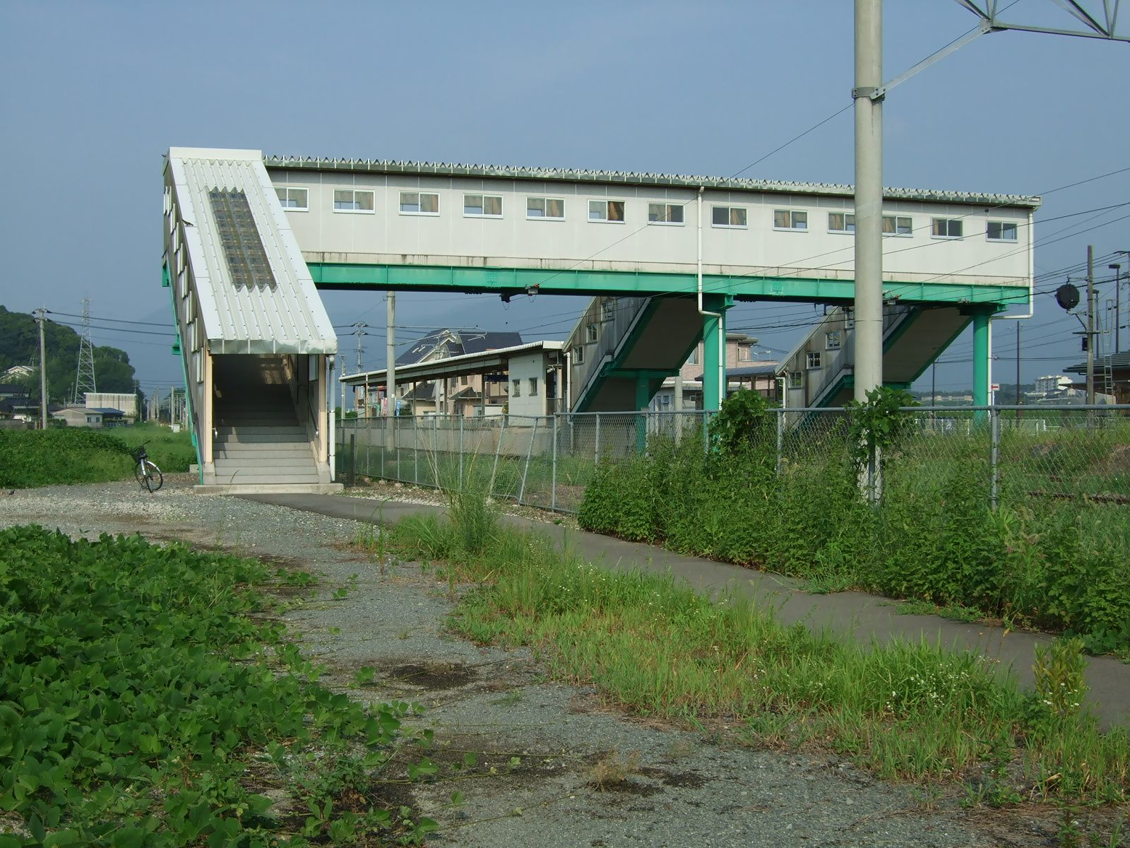 Katsuno Station, Chikuho Main Line, Kyushu Railway Company.